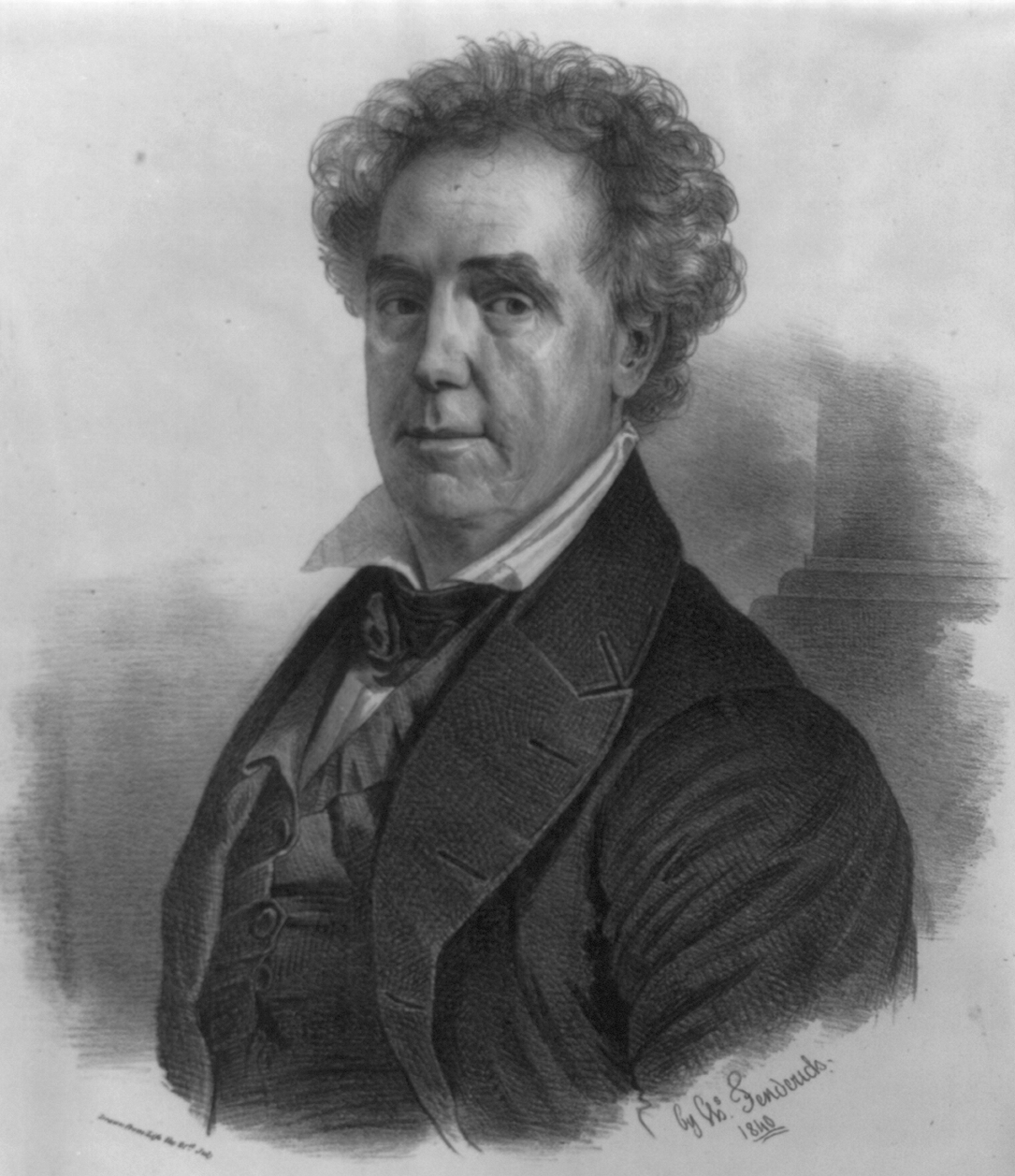 Vice President of the United States Richard Johnson